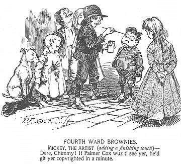 [:w:Richard F. Outcault|Richard F. Outcault 's 4th Hogan's Alley panel, published in 1895.